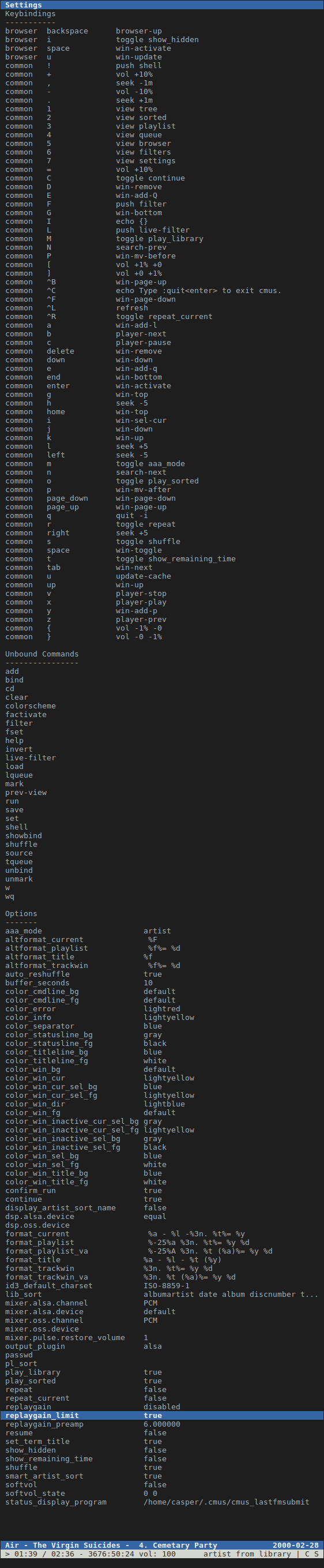 Cmus 2.4.3 settings